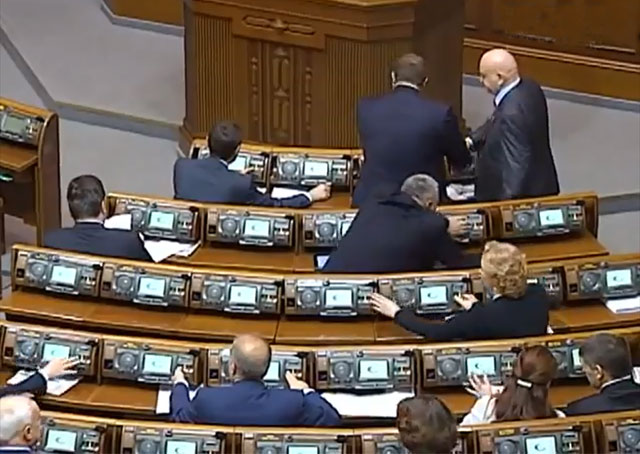 Impersonal voting in Ukrainian Verkhovna Rada for the 2013 national budget